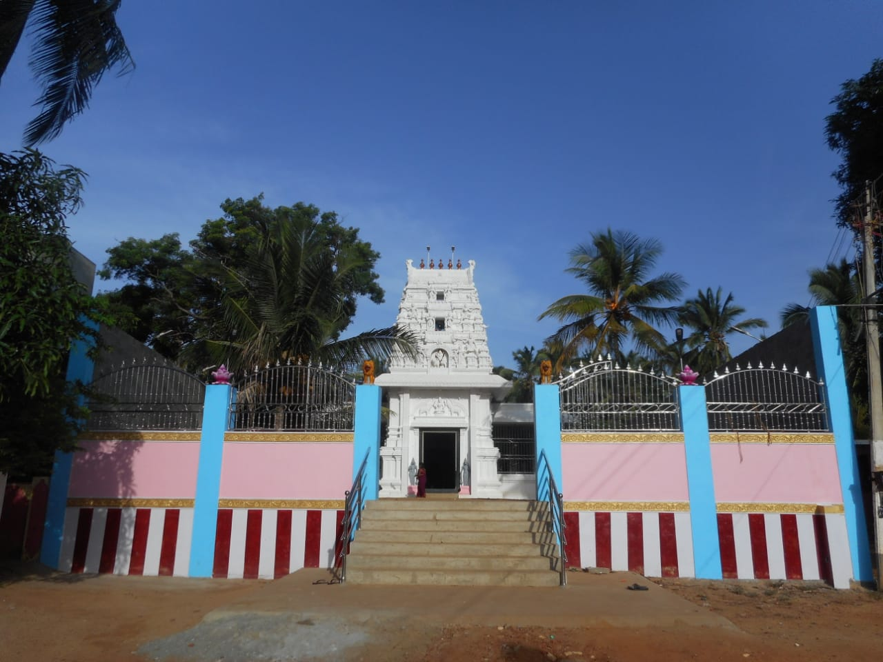 This is the general temple for Keezha Sarakkalvilai people.